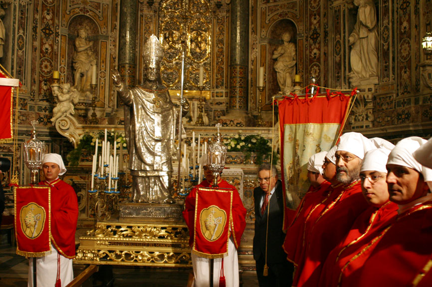 8th May feast